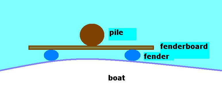 Fenderboard (boating) drawing by User:Logograph